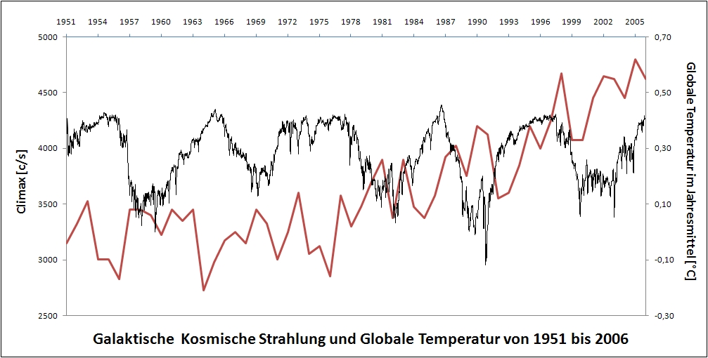 Black line GCR, red line temperature. Galactic cosmic rays (GCR) from 1951 to 2006. University of New Hampshire, "National Science Foundation Grant ATM-0339527". Temperature data from